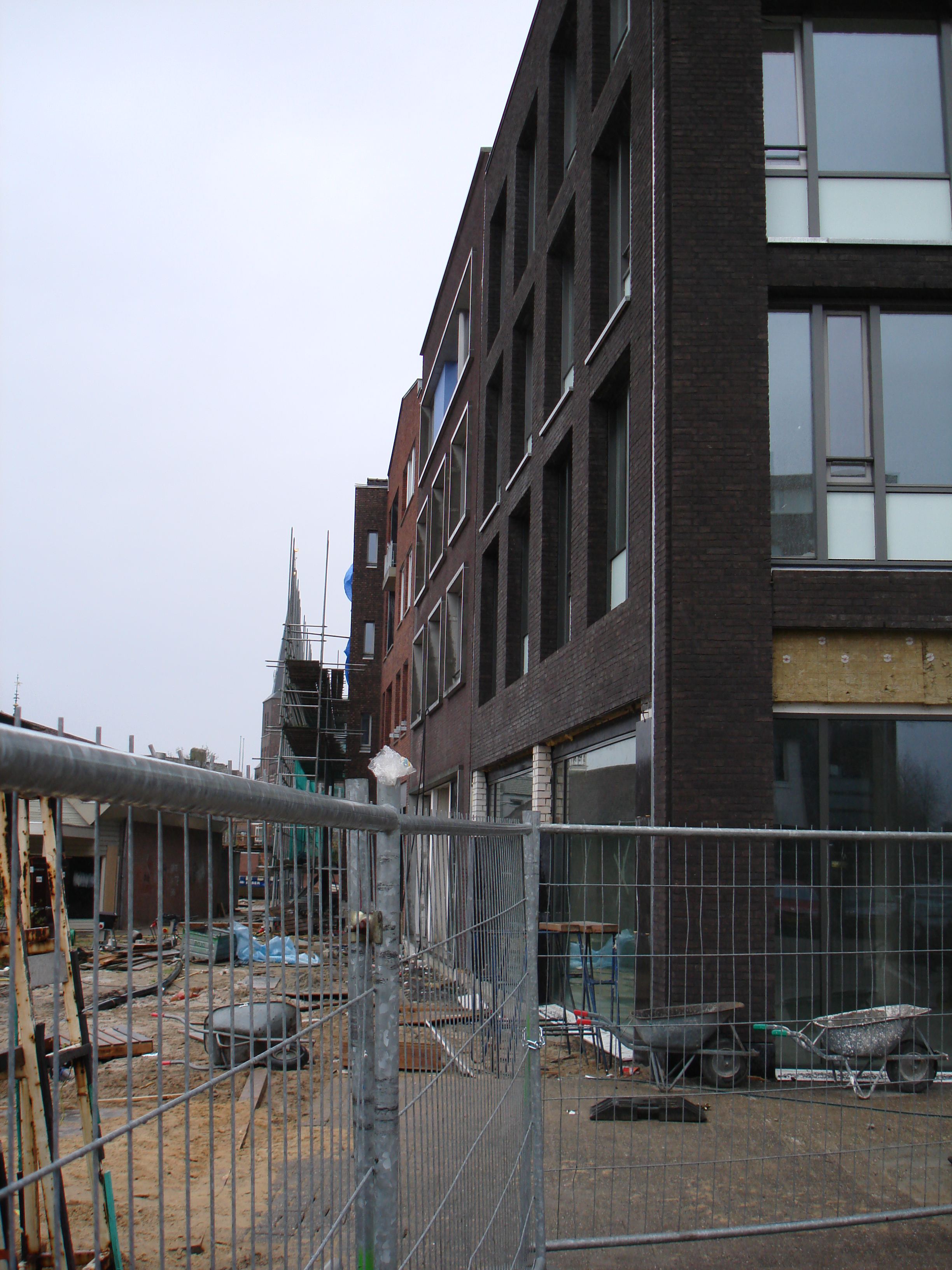 Wolfsberg shopping centre in Deurne under construction.